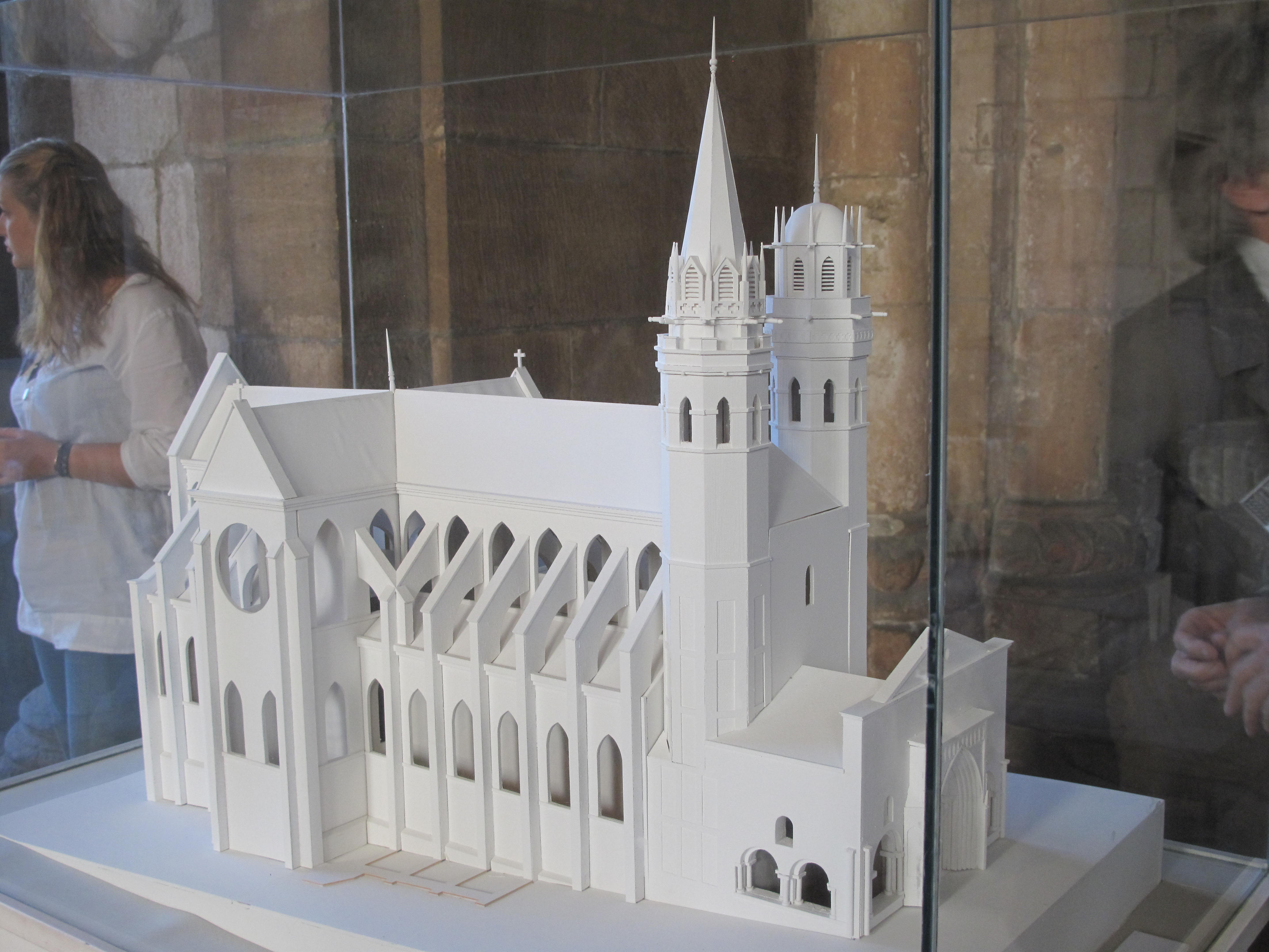 Model of the cathedral Vieux (=old) Saint-Vincent in Macon (Saône-et-Loire, France). The model shows the cathedral before partial demolition.